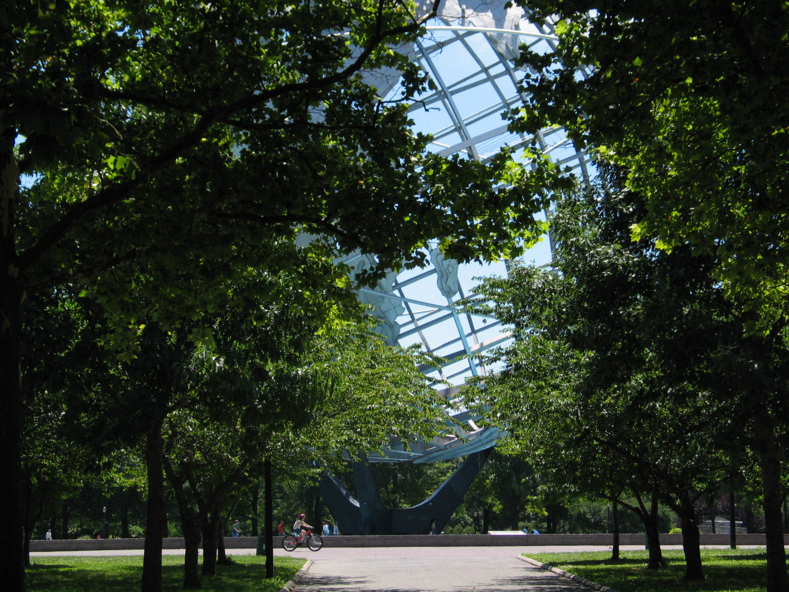 Alley leading to Unisphere in Flushing Meadows Corona Park, in Queens, NYC